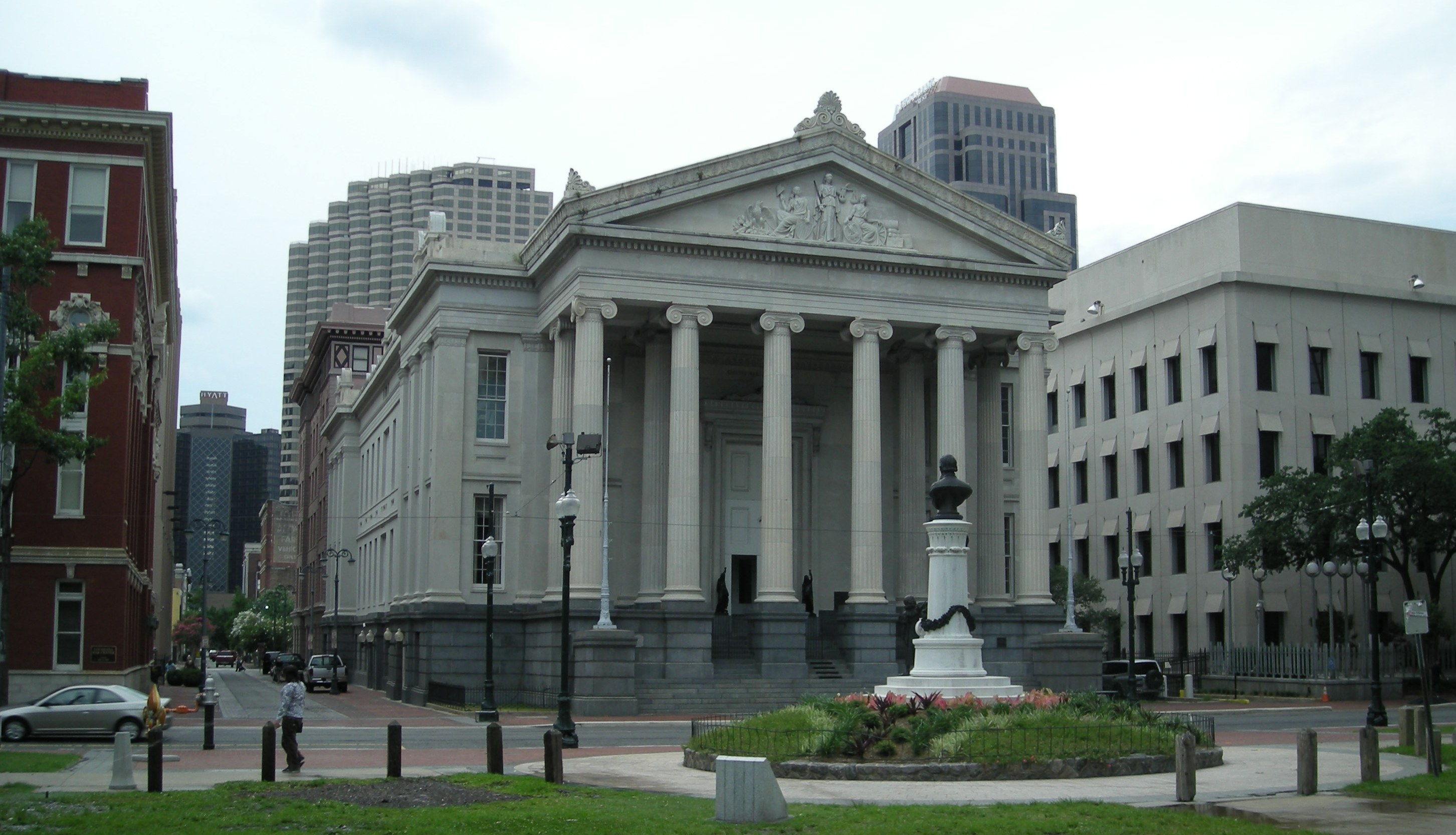 Gallier Hall, St. Charles Ave at Lafayette Square, New Orleans; taken 15 June 2007.